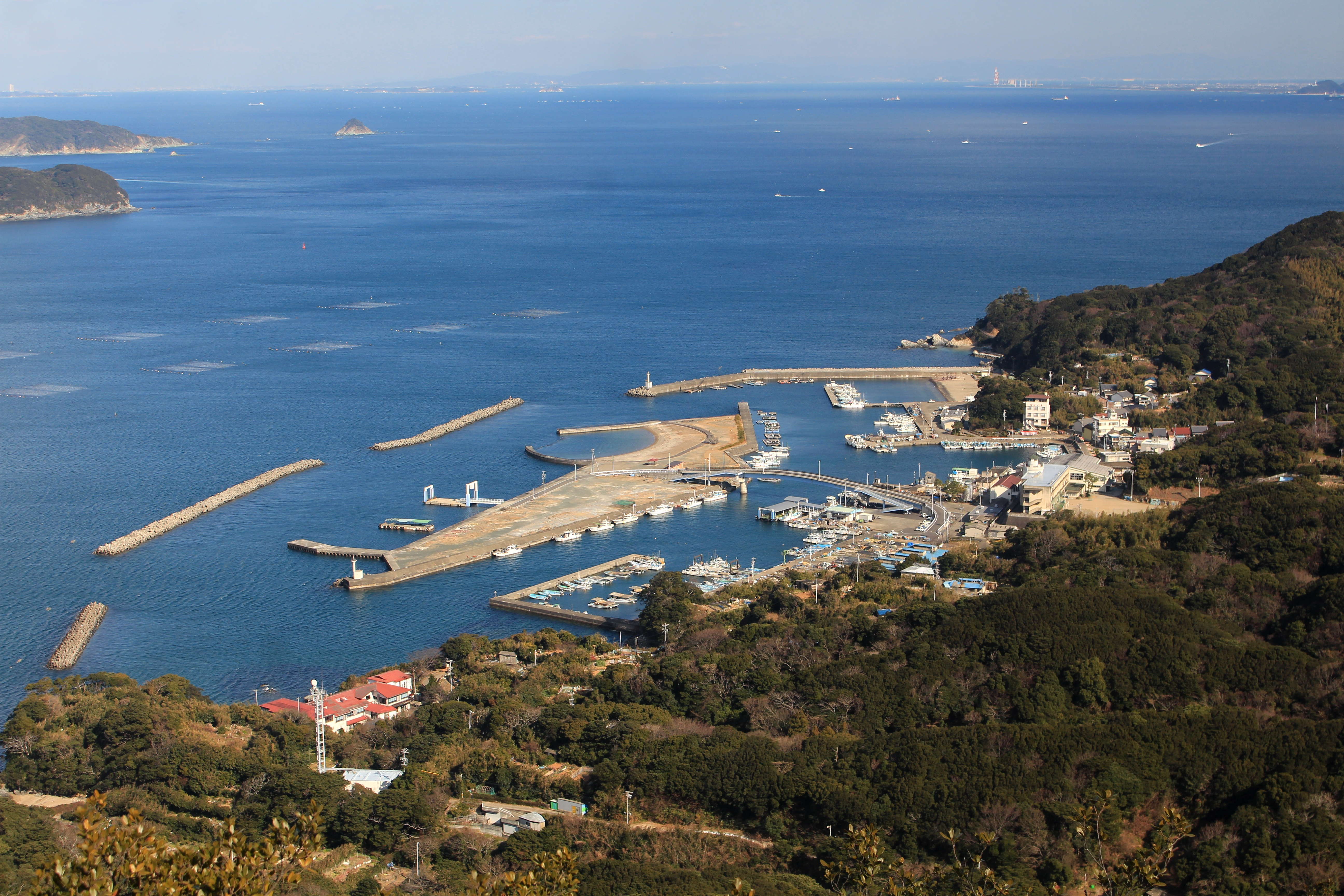 Port of Suga Island in Toba, Mie prefecture, Japan.